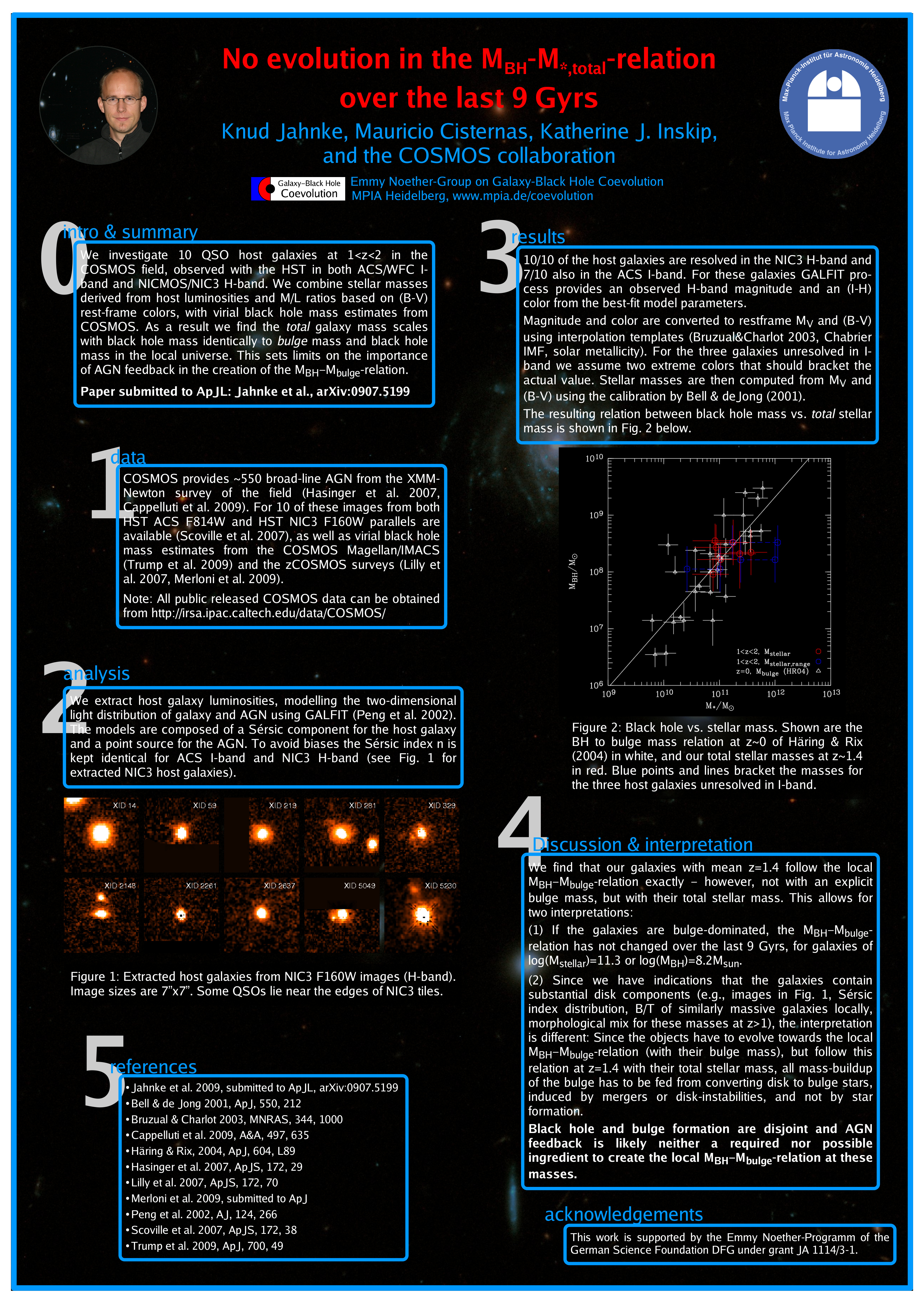 Scientific poster by Knud Jahnke, Mauricio Cisternas, Katherine J. Inskip & the COSMOS collaboration for the meeting of the International Astronomical Union in 2009 in Rio de Janeiro. Topic is research in quasi stellar objects and the relation between galaxies and properties of their central supermassive black holes.